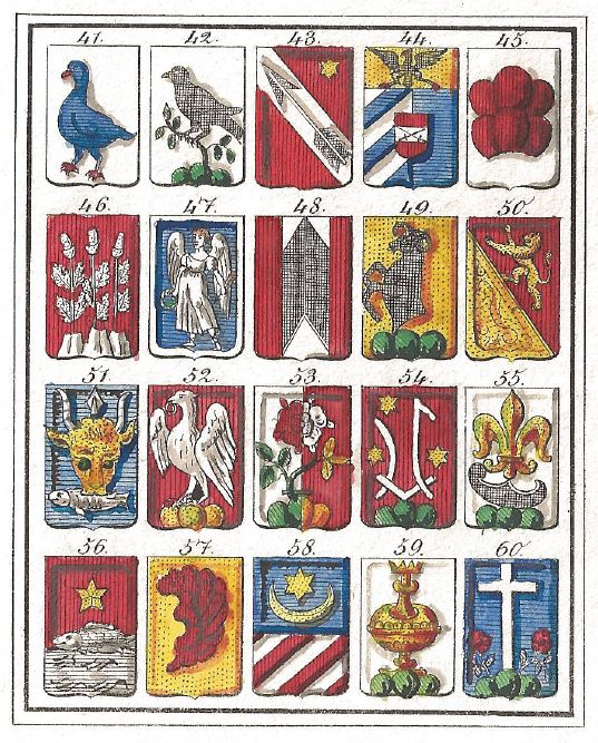 Wappenbuch Bern 1836, Nr. 41-60